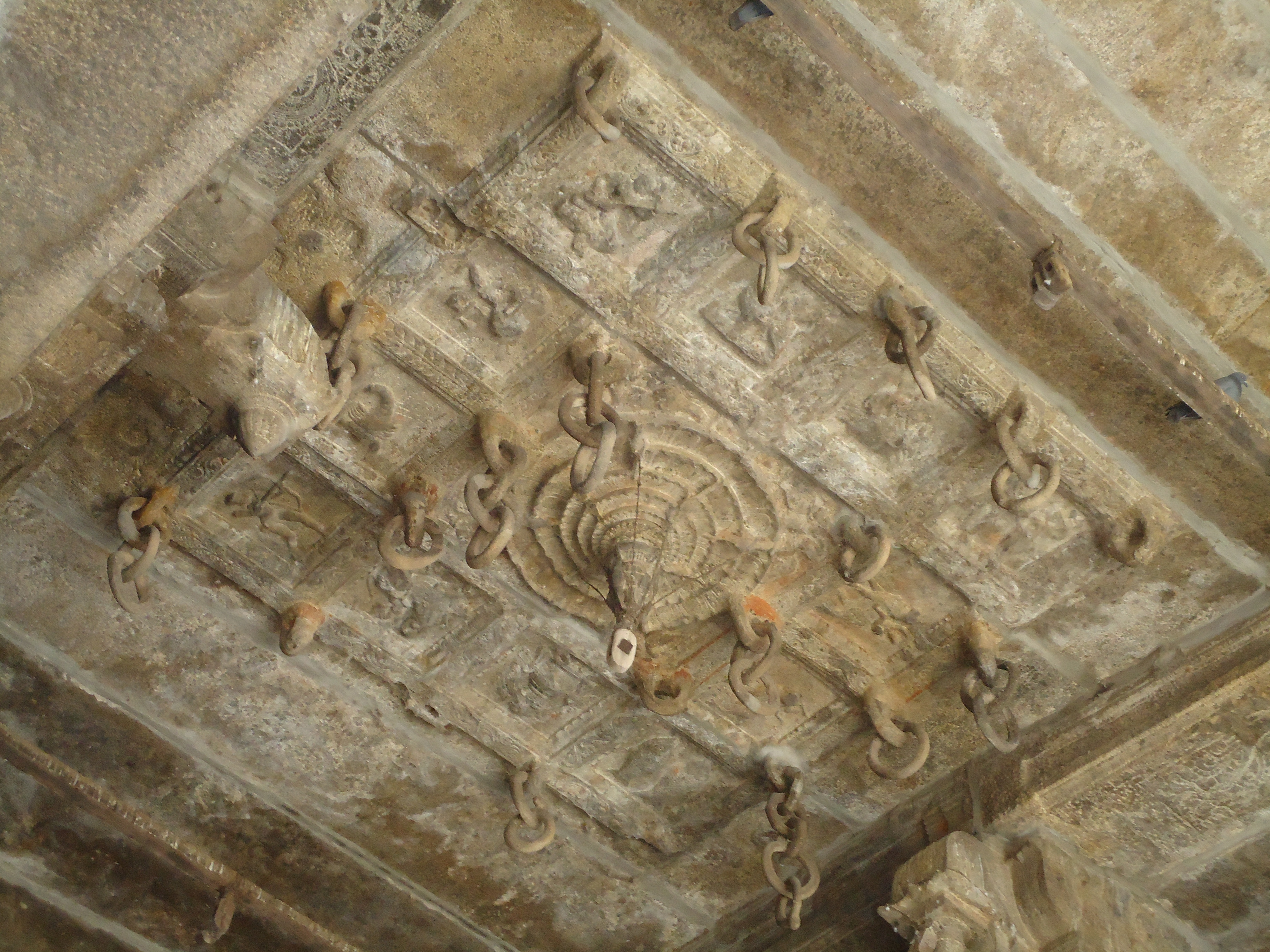 STONERINGS